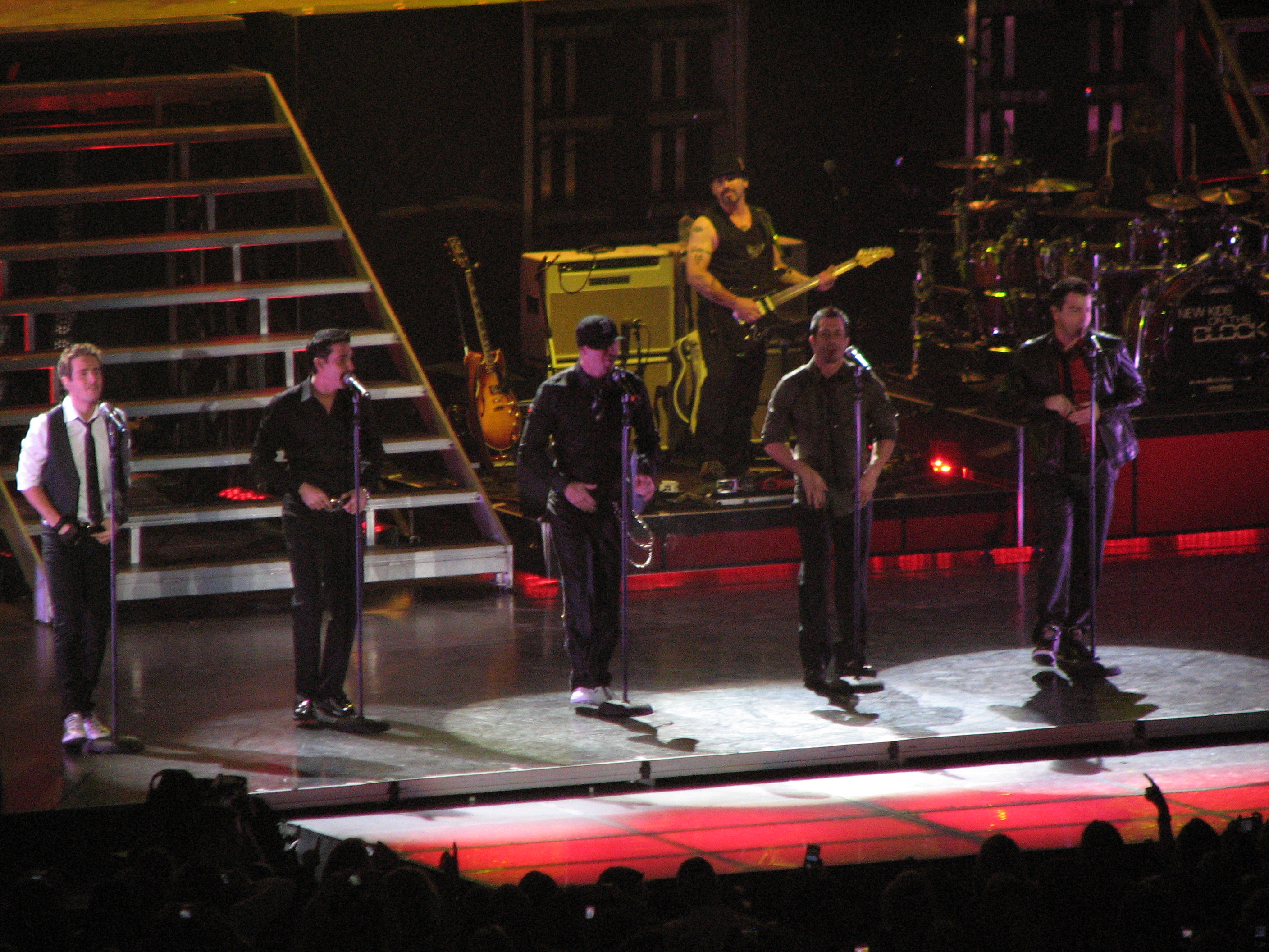 New Kids on the Block, Nov 6, 2008 in Providence, RI